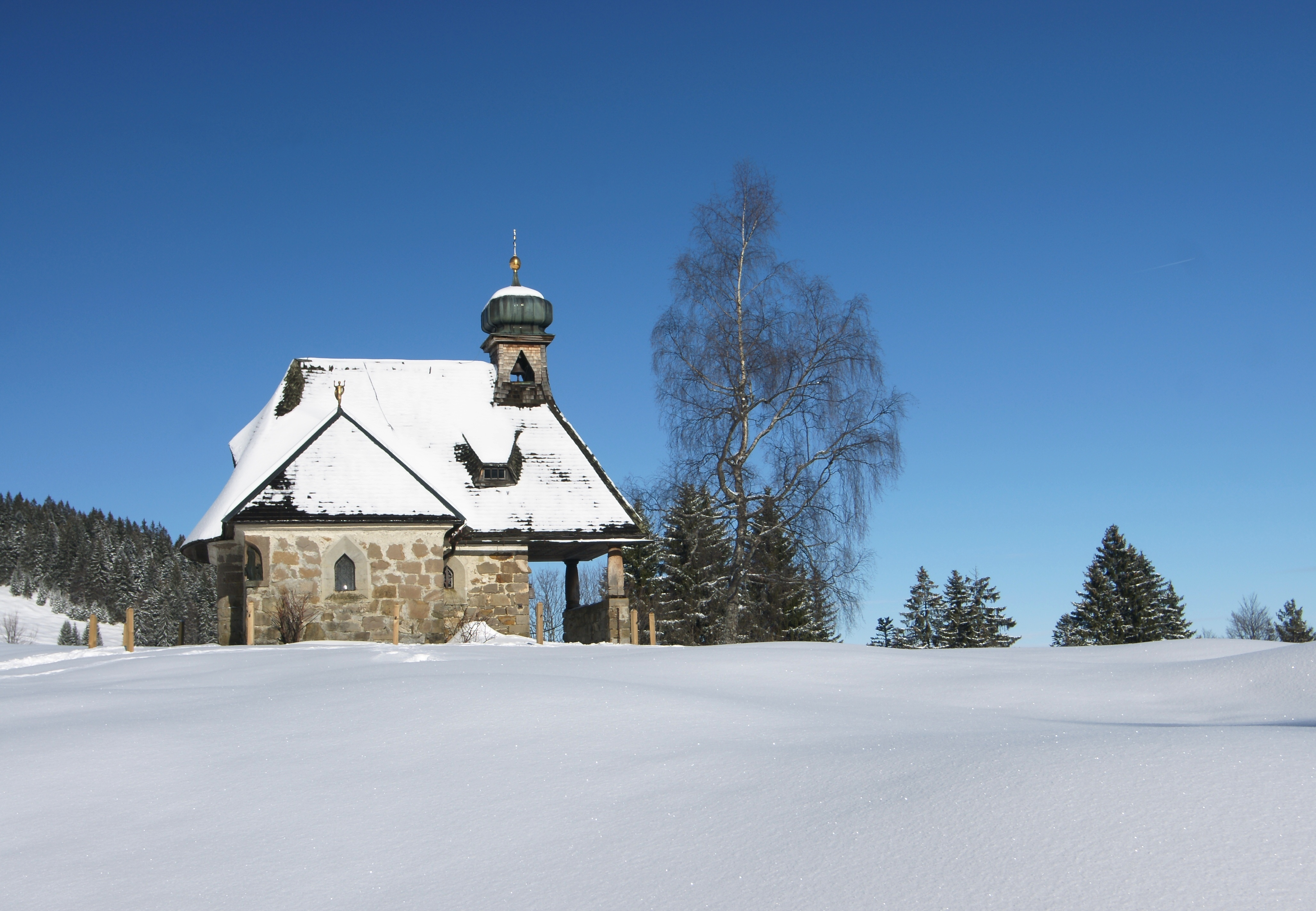 Schwarzenberg. Here leads to about 1.200 m the way of Bödele by the Lustenauer hut. The chapel Saint Benedict for 1921/22 has been built according to plan, "Fritz Fuchsenberger" and donated by "Theodore and Maria Hämmerle" from Dornbirn.